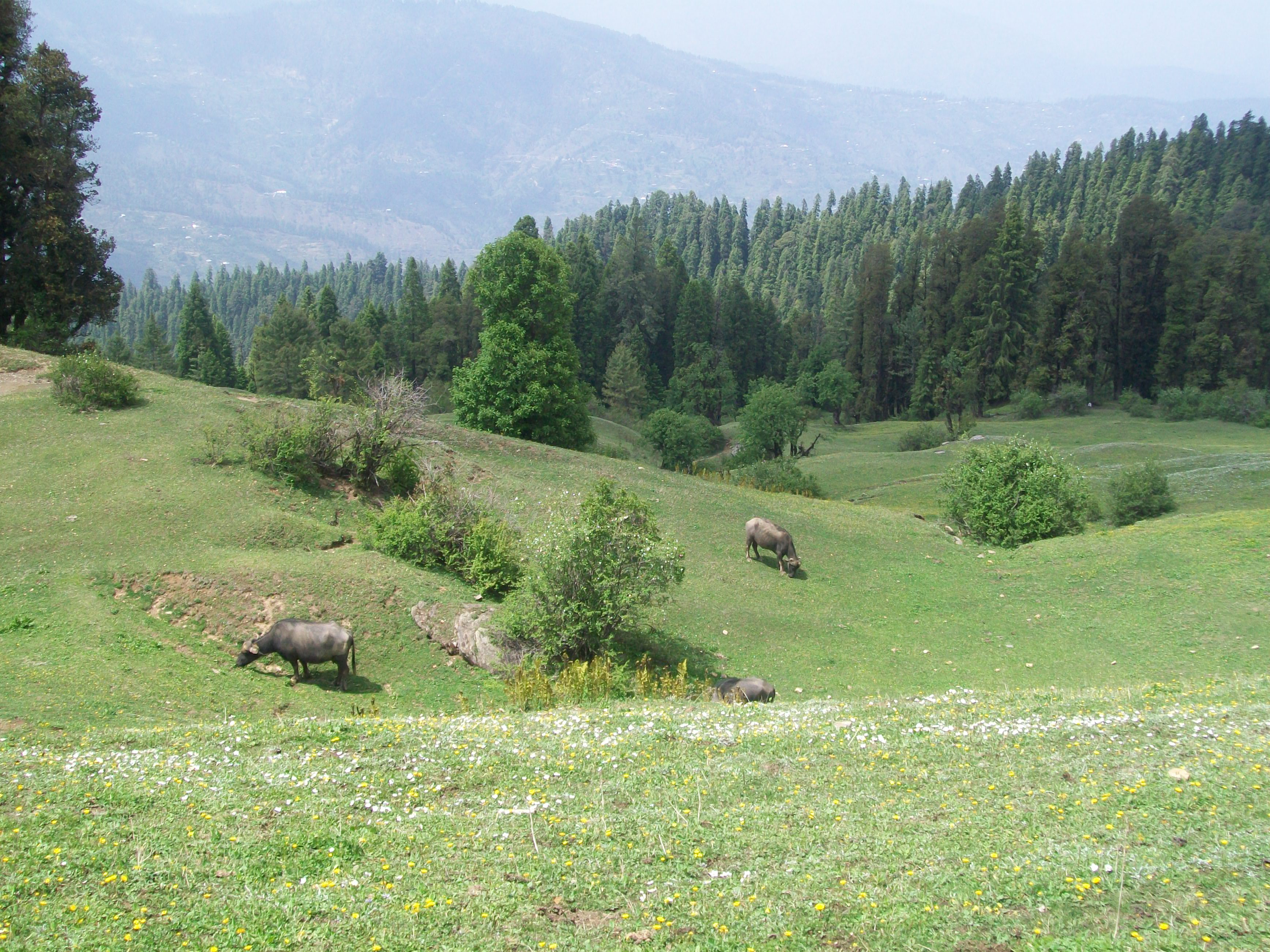 giriganga kharapather